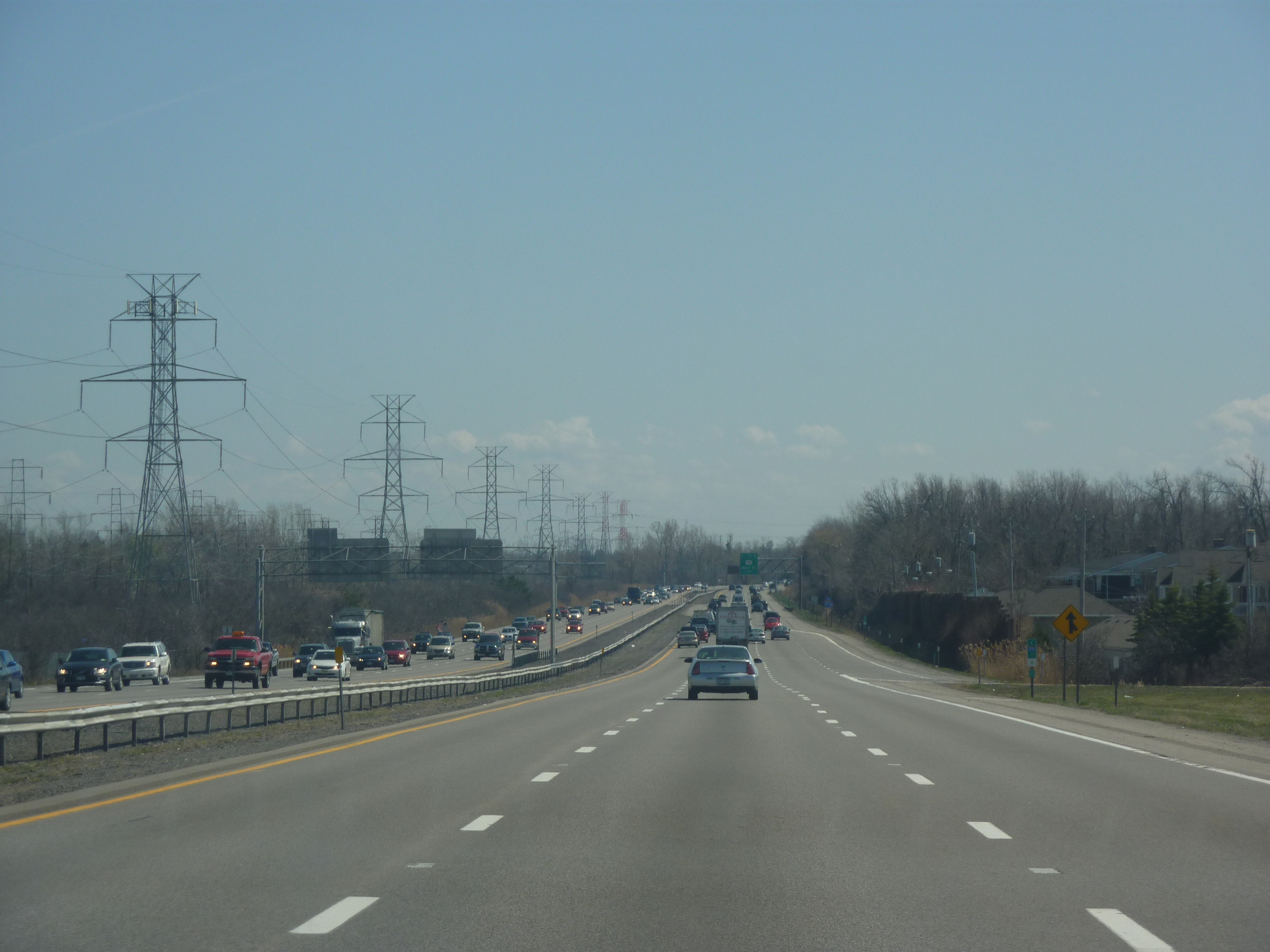 Approaching I-90 on I-290.